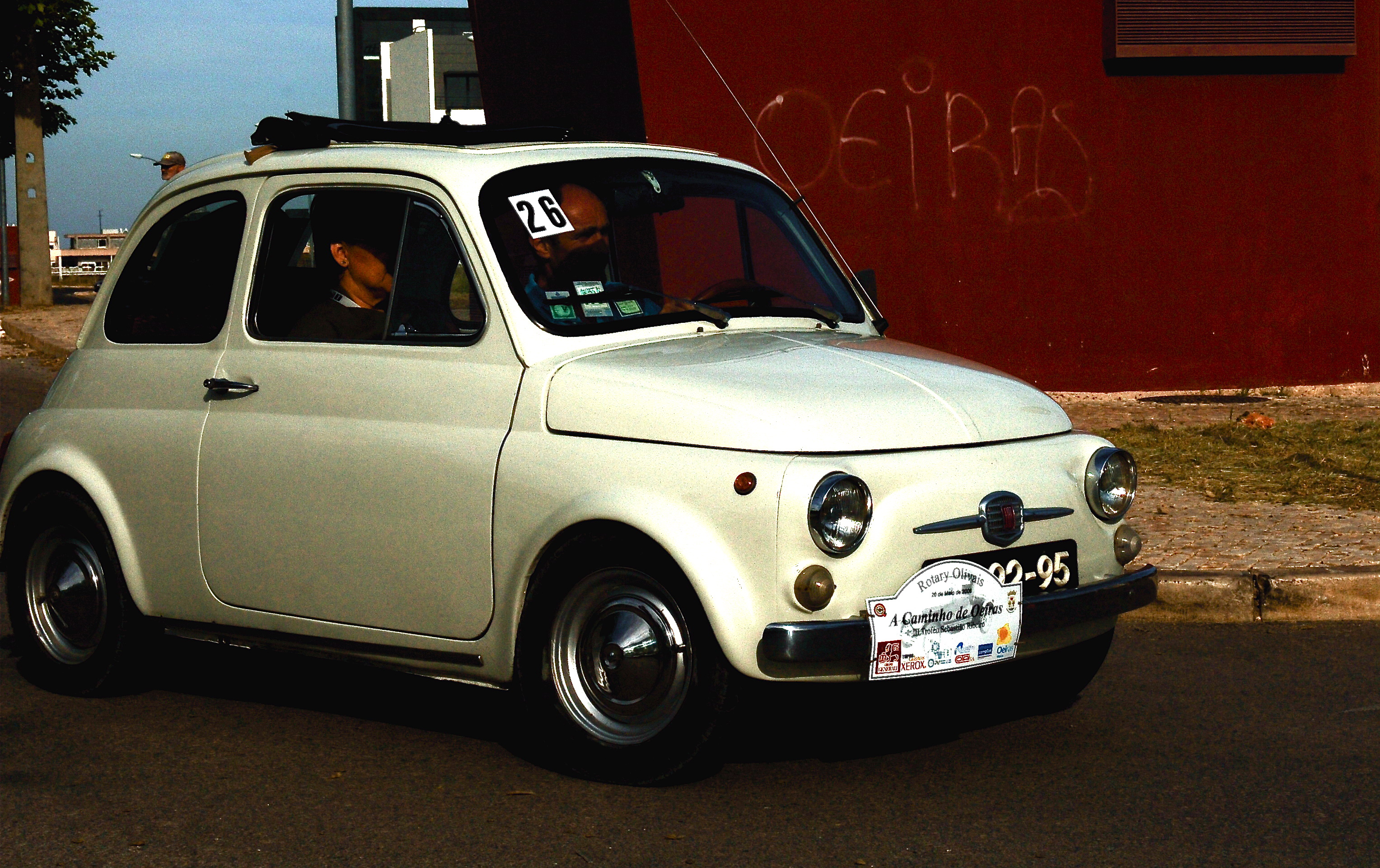 Fiat cinquecento in Oeiras